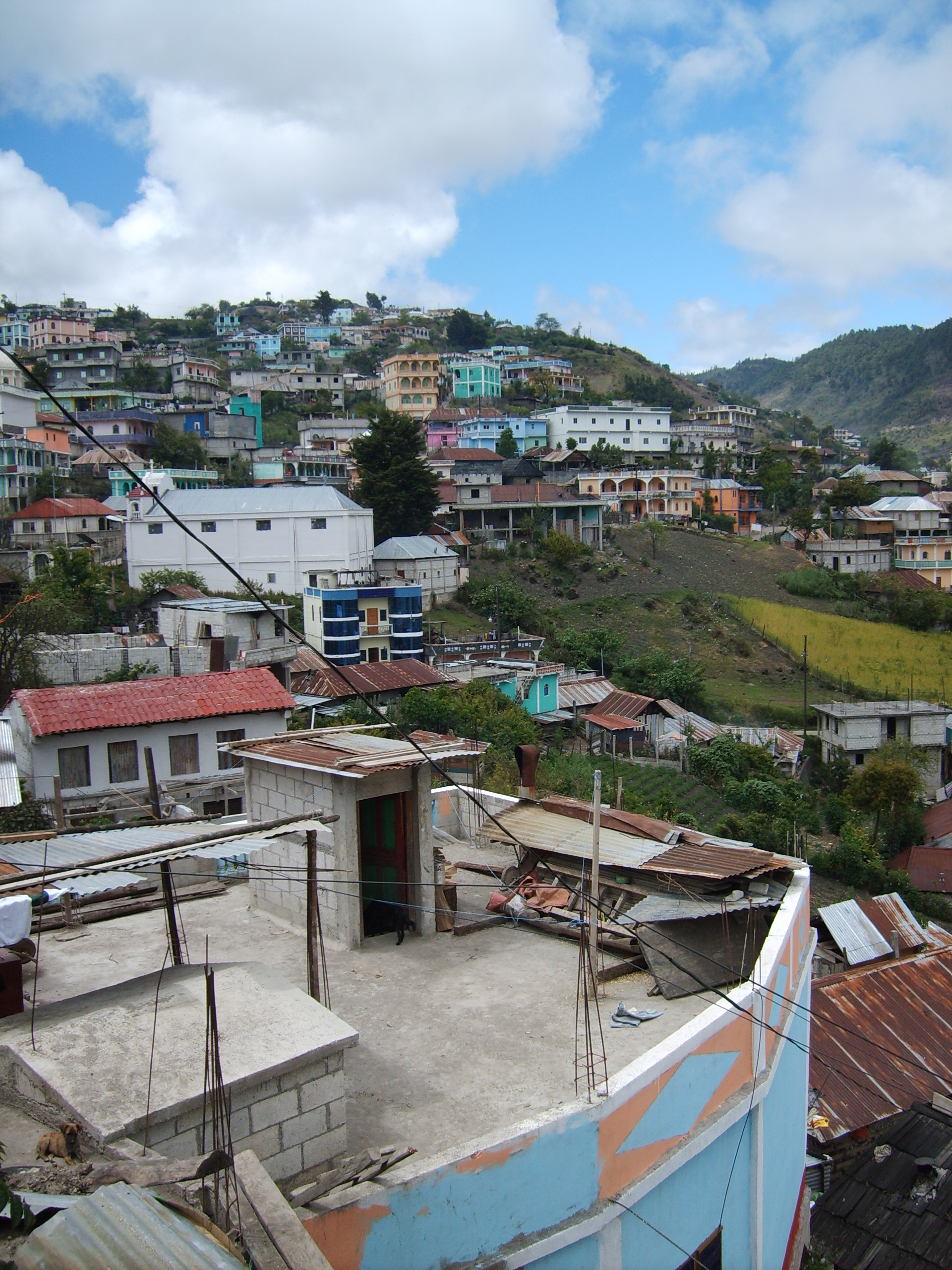 View of San Mateo Ixtatan, Huehuetenango department, Guatemala.